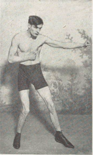 Photo picture of Fabian Lloyd, in La Vie au grand air, March 26, 1910, page 208, illustrating a review signed Jacques Mortane about young champions boxing in Paris.